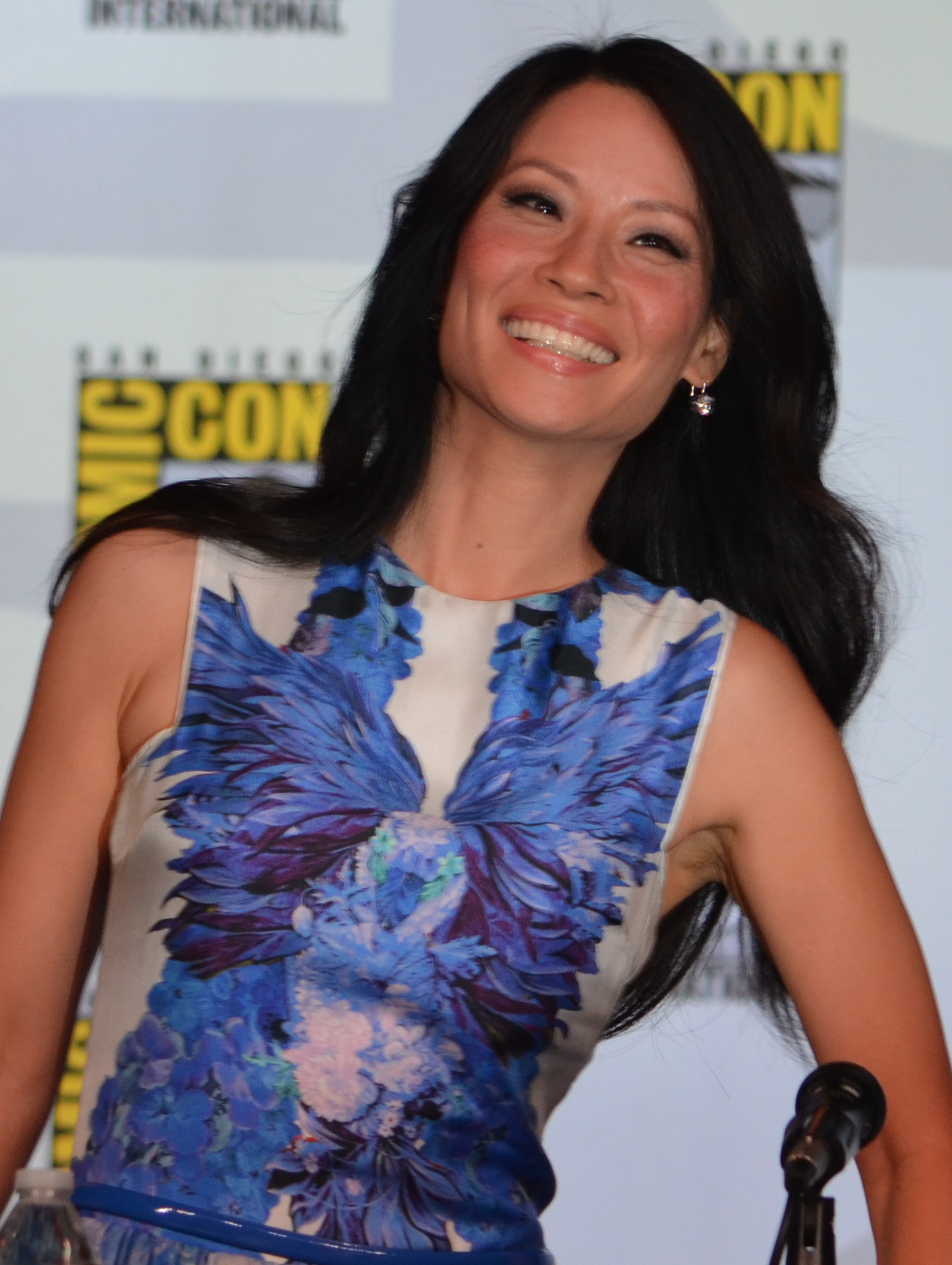 Lucy Liu at Elementary panel at 2012 Comic-Con